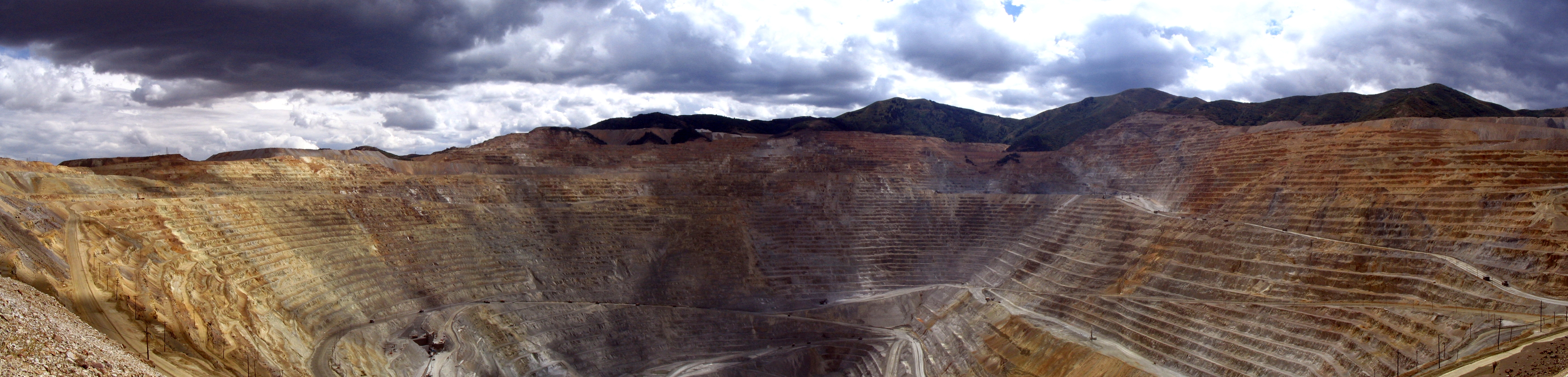 A panoramic photograph of the Bingham Canyon Copper Mine in Salt Lake City, Utah